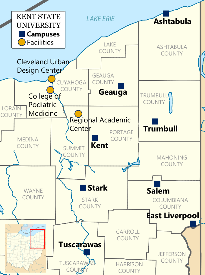 Map showing campuses of and facilities of Kent State University in Northeast Ohio. Originally uploaded to English Wikipedia June 27, 2007; updated April 20, 2016.